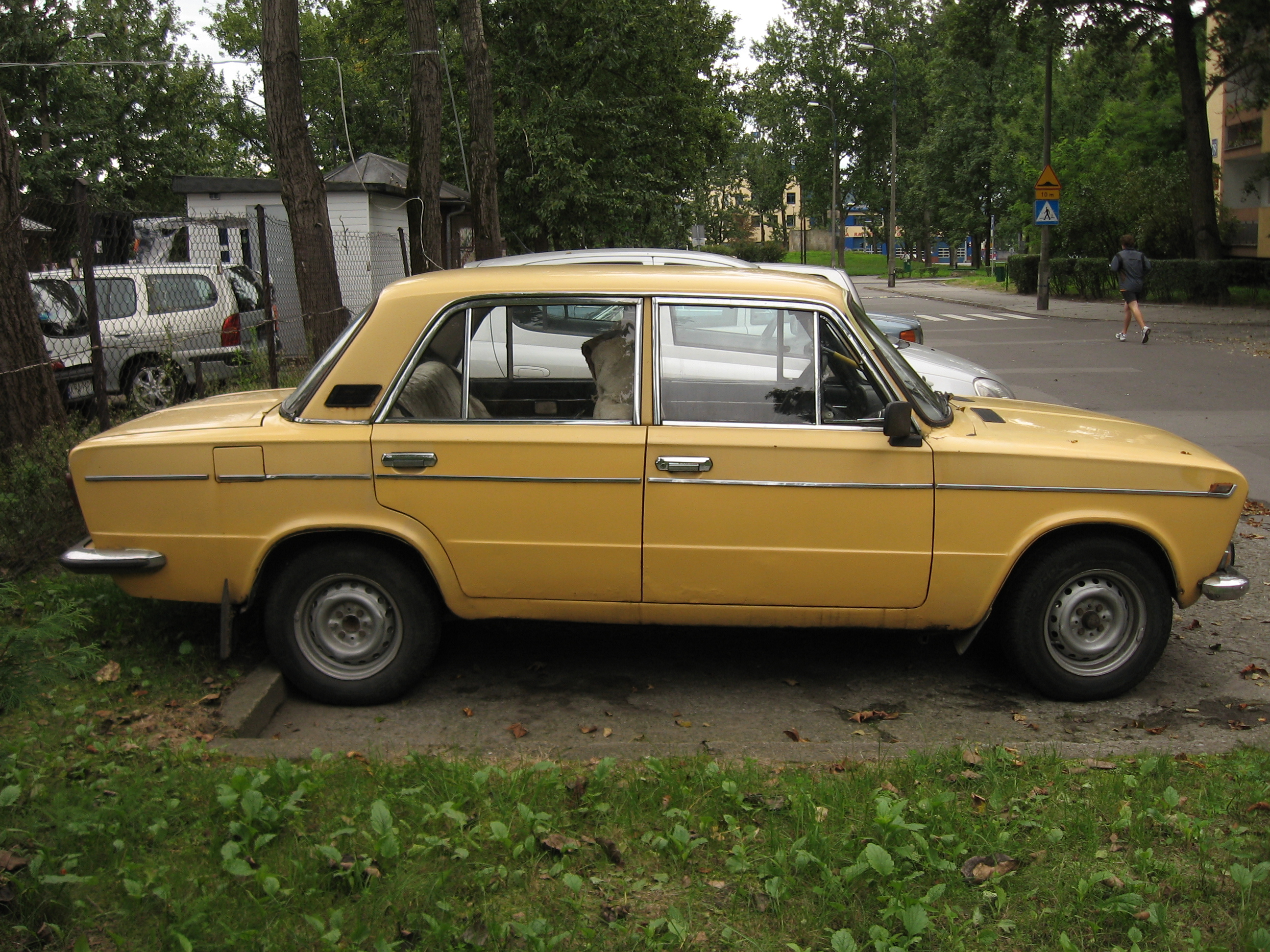 VAZ-2103 on a parking lot in Kraków.